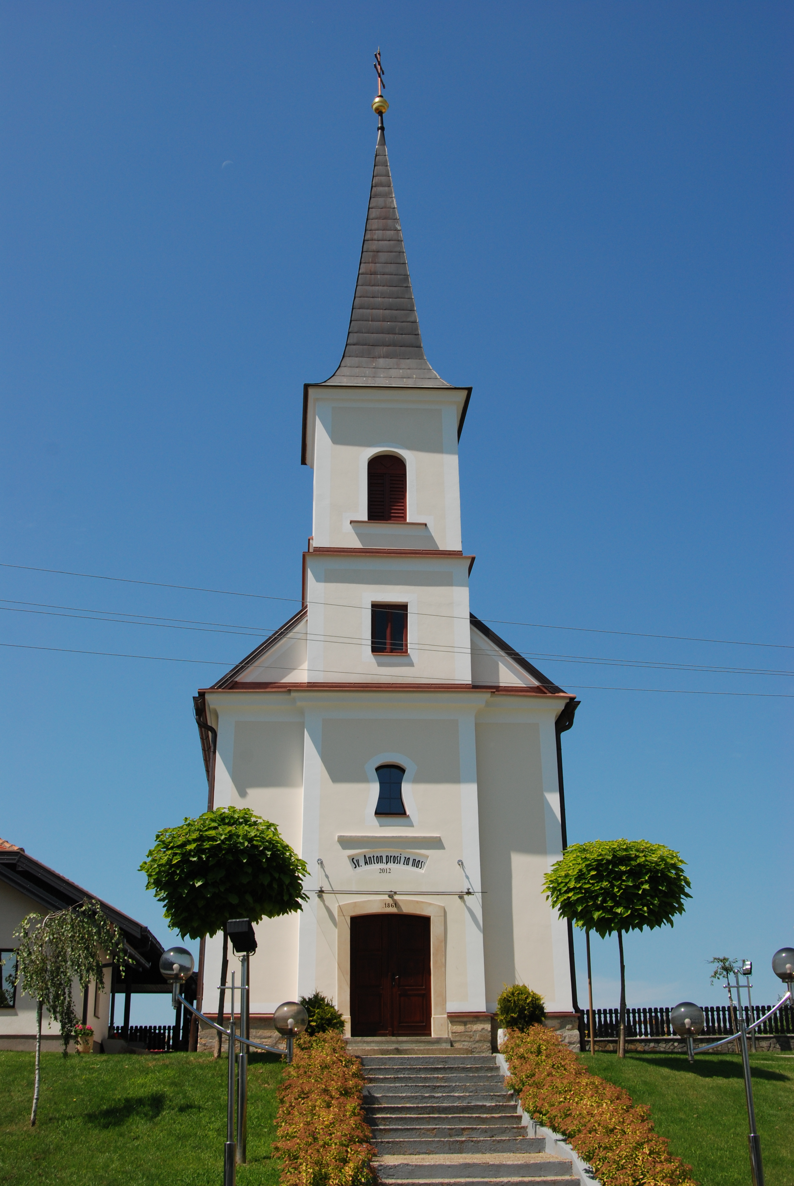 Church Gerlinci Cankova